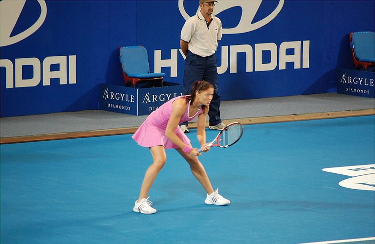 Dinara Safina during the 2009 Hopman Cup event.